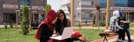 Kilis 7 Aralık University Square Students